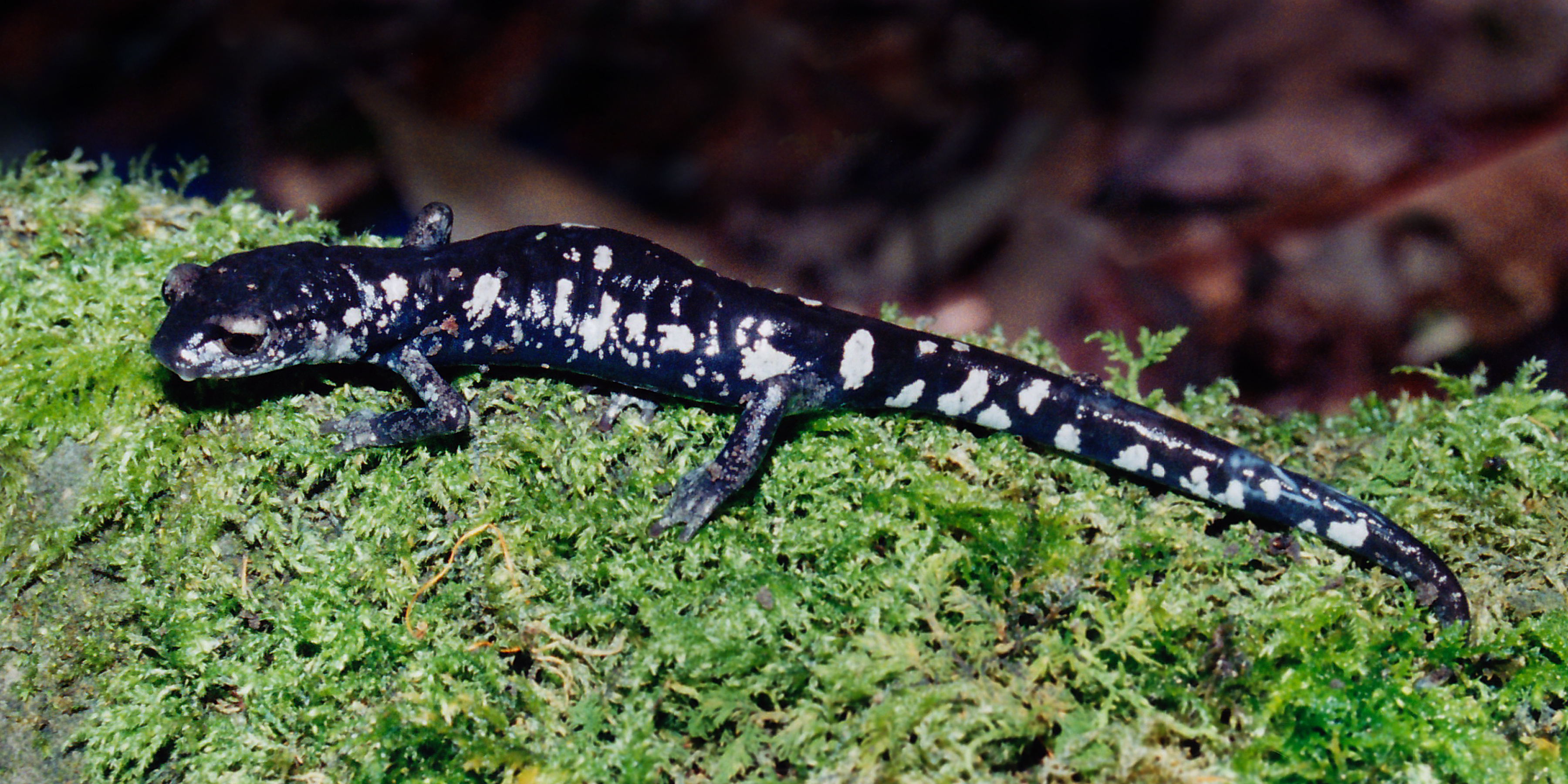 Tamaulipan False Brook Salamander (Aquiloeurycea scandens), a moderately common species in El Cielo Biosphere Reserve, Municipality of Gómez Farías, Tamaulipas, Mexico. Photographed on 25 May 2005 by William L. Farr. This image was originally photographed with film and later scanned from a print.